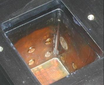 A prototype wet chemistry beaker showing some of the electrochemistry sensors on the sides of the beaker. Image credit: NASA/JPL.